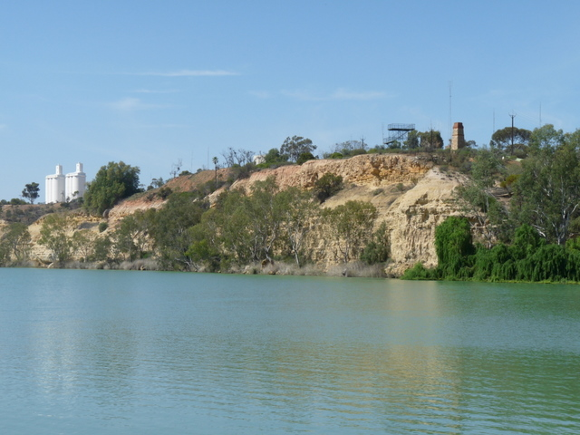 The cliffs at Waikerie showing from the left, grain silos, lookout and chimney